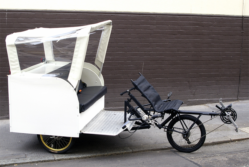 Natasha Jaryova eco chariots This image gives a general idea of the design and features. UK design rights